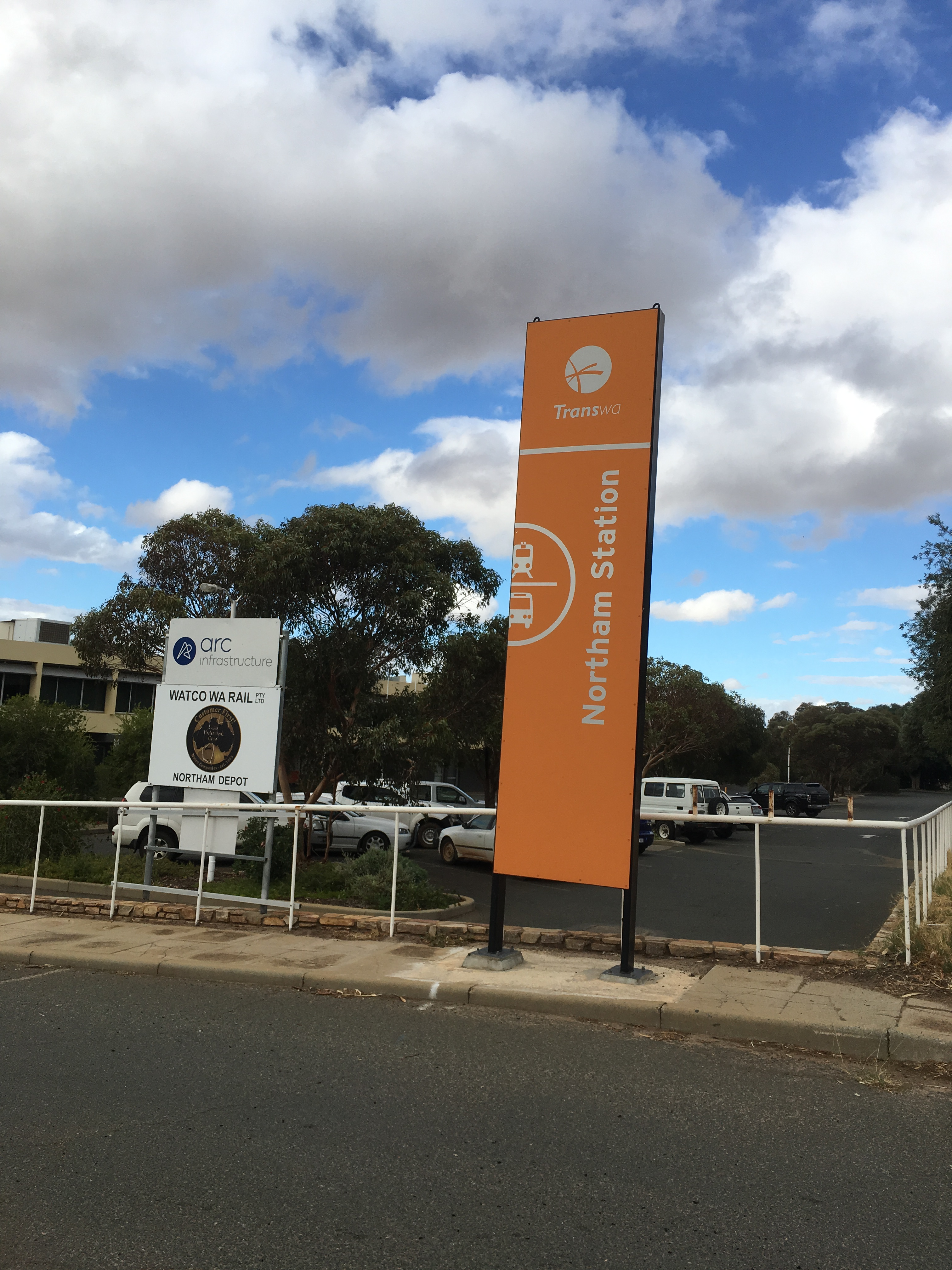 The sign near Northam Station entrance